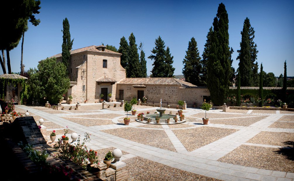 Holy Guardian hermitage at Toledo